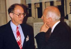 Judge James Harvie Wilkinson III and Judge Edward Roy Becker at a reception.